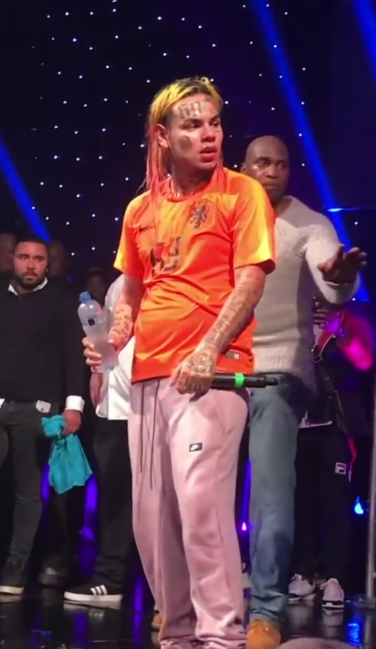 6ix9ine at a concert